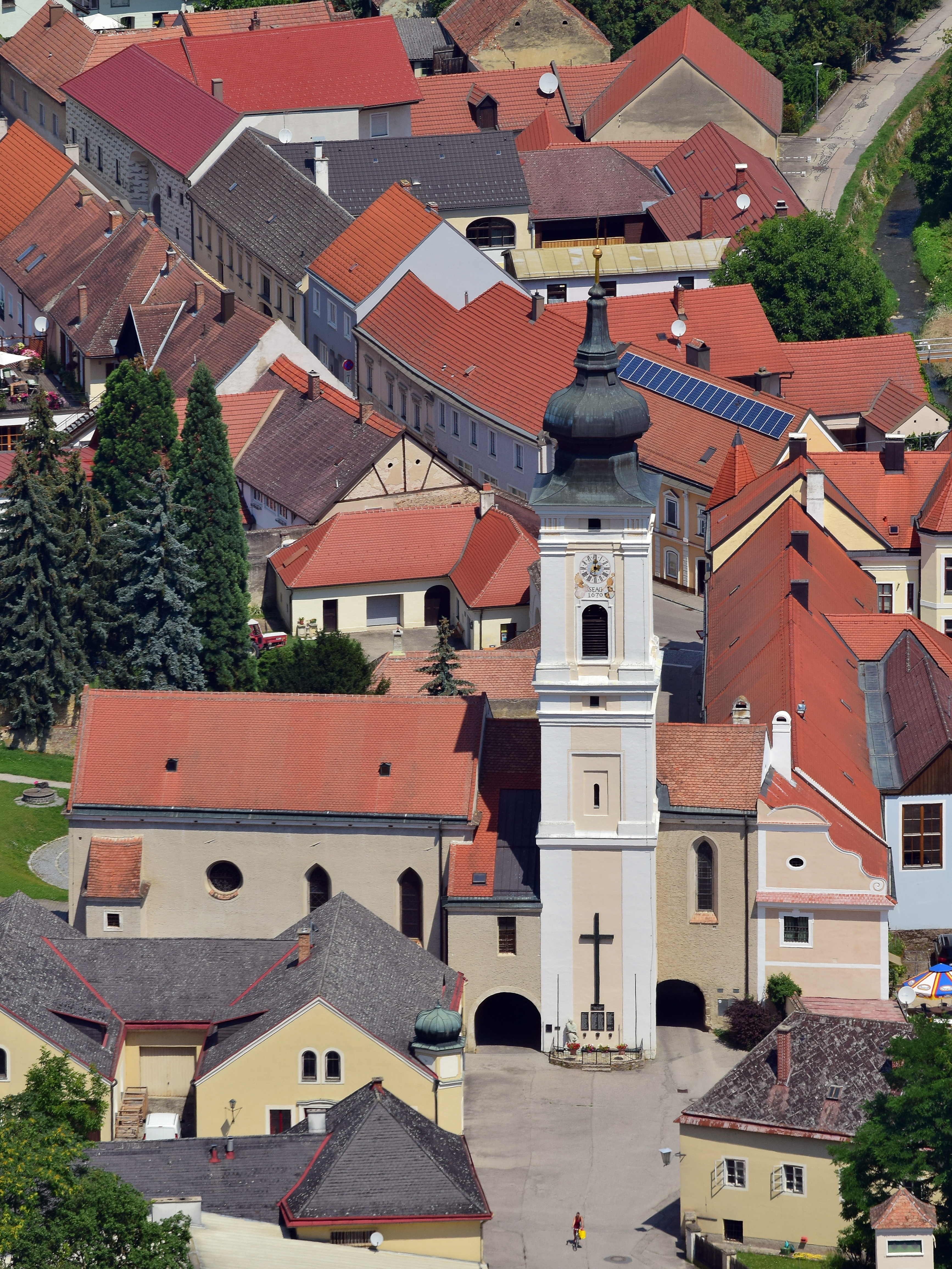 Catholic parish church of Furth near monastery Göttweig, dedicated to Saint Wolfgang of Regensburg